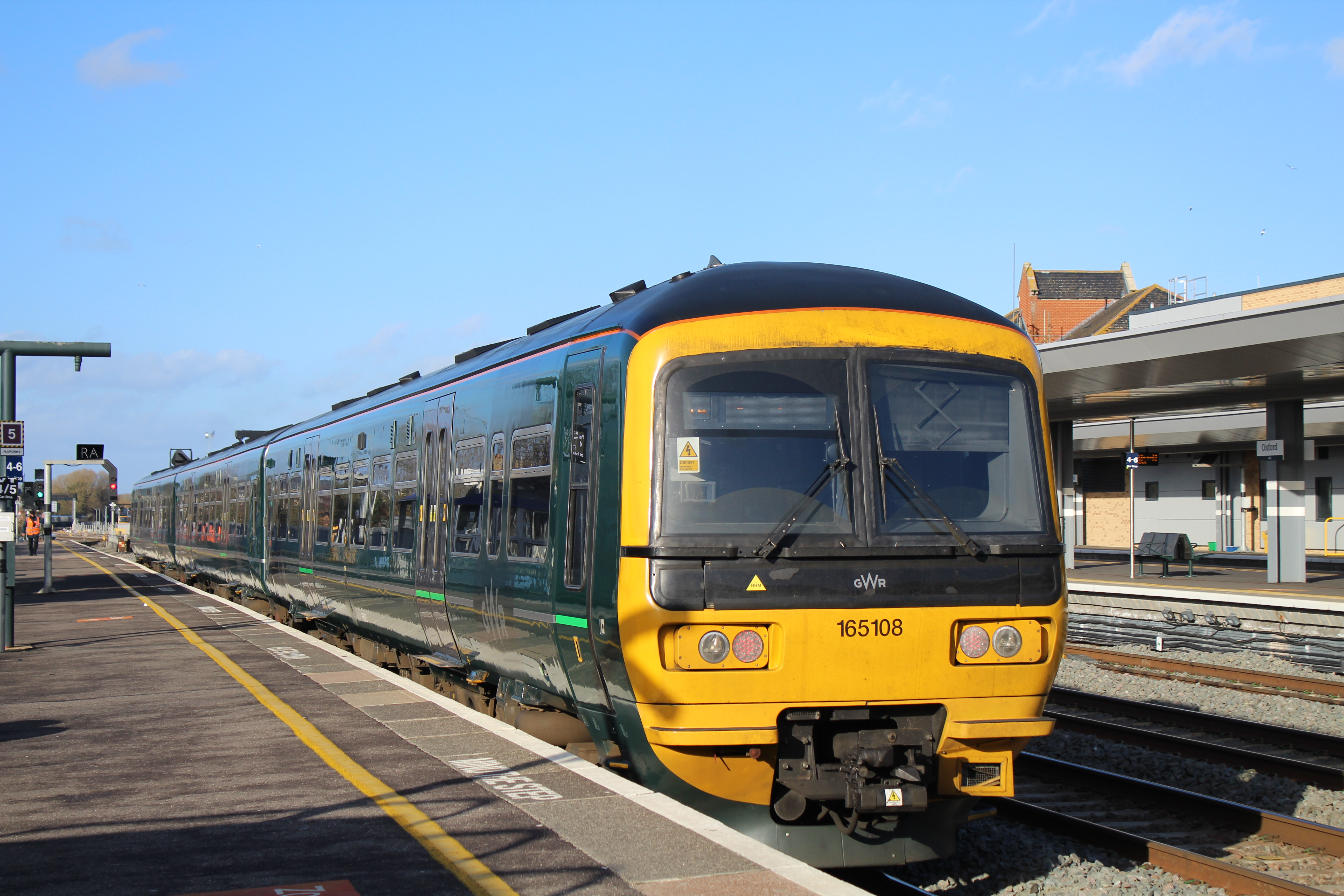 Great Western Railway 165108 leaves Oxford working a Didcot Parkway - Banbury service.